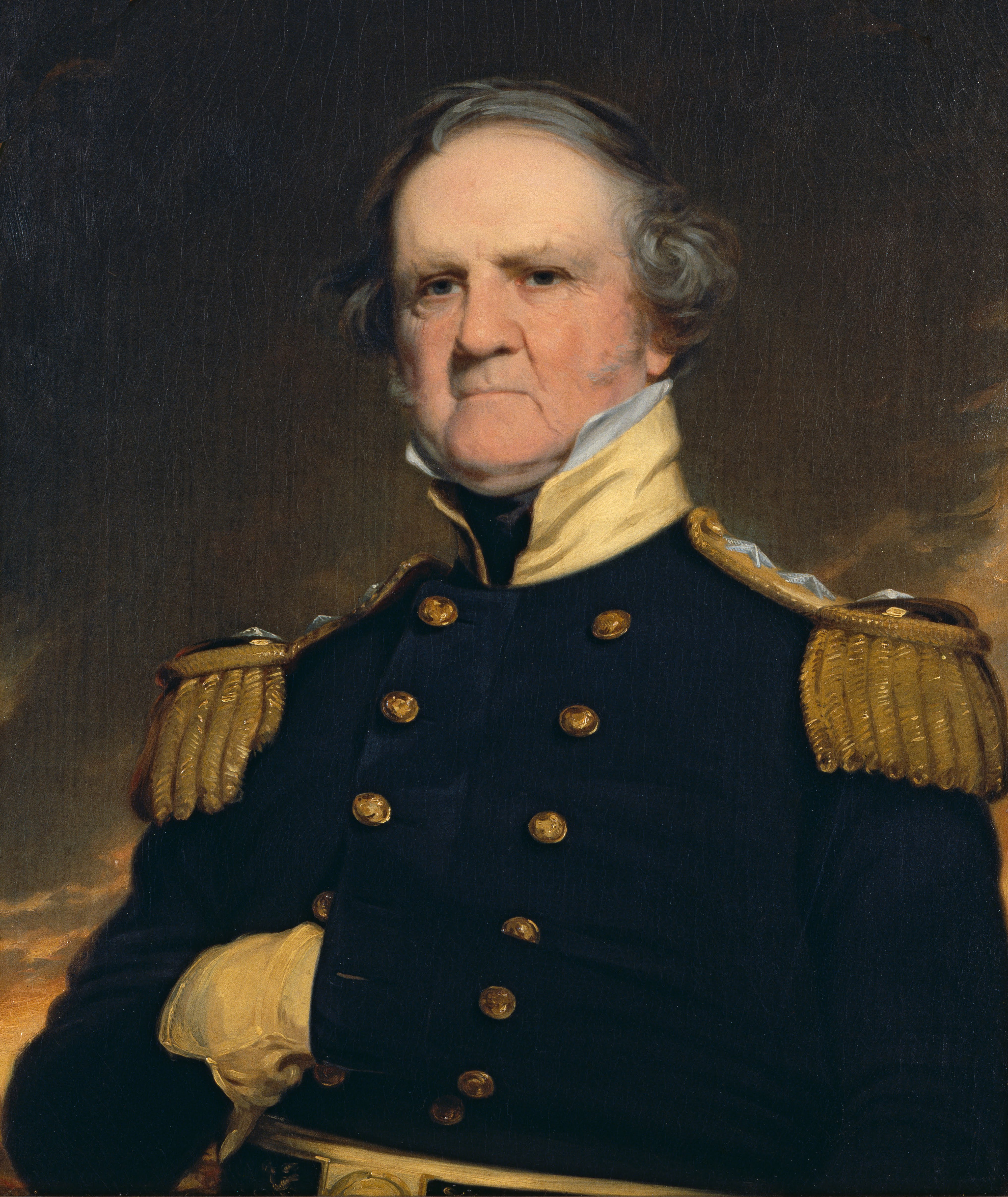 Cropped image of a portrait of Winfield Scott located in the National Portrait Gallery in Washington, D.C..